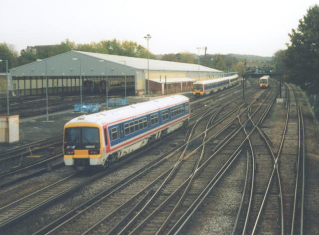 Grove Park traincare depot. The large stabling shed for Southeastern Trains' electric units on the down (east) side of the line, viewed from the footbridge that takes the Green Chain Walk across the railway.